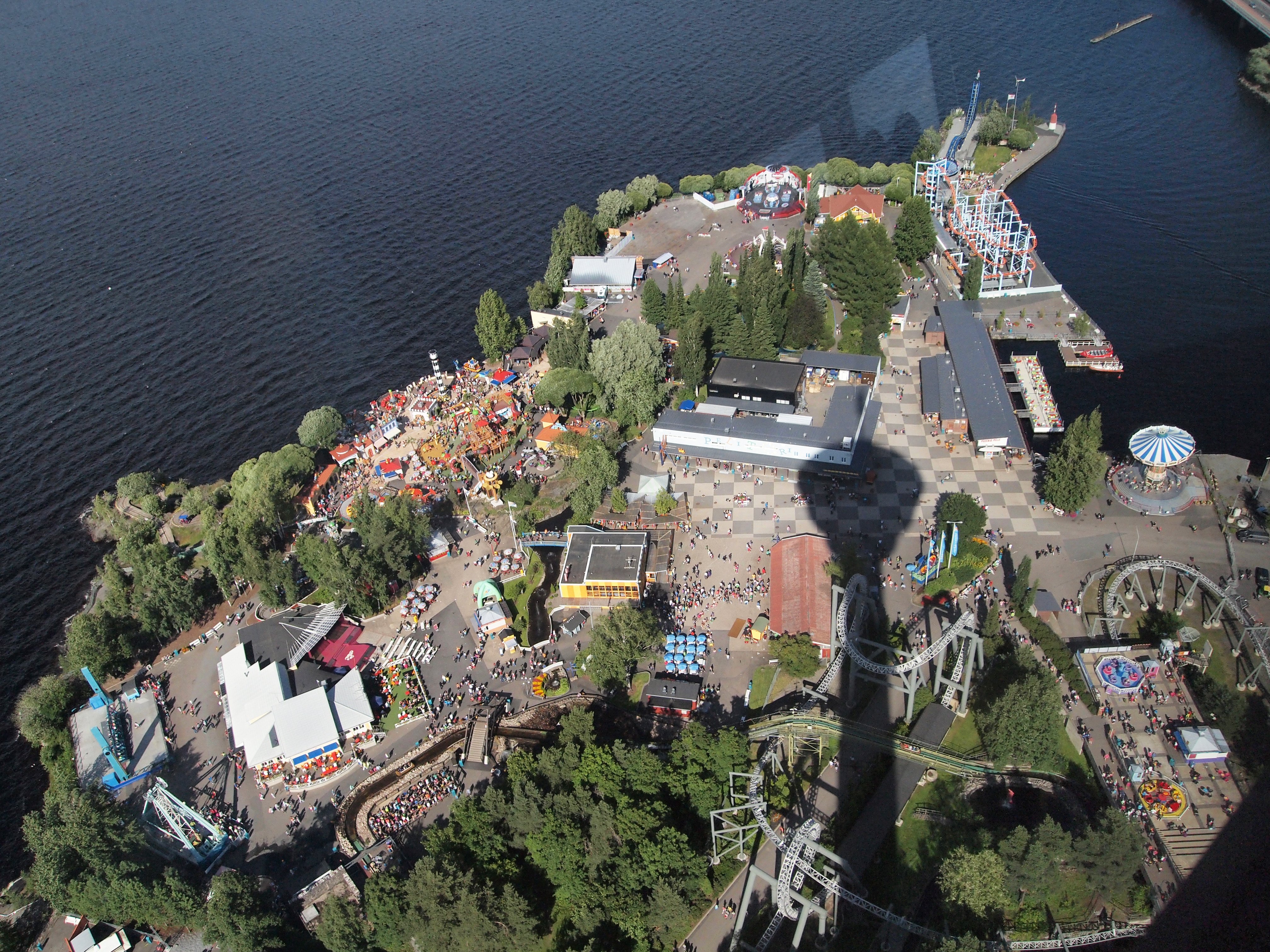 View from tower Näsinneula to Särkänniemi amusement park, Tampere. This photograph was taken with an Olympus E-PL1